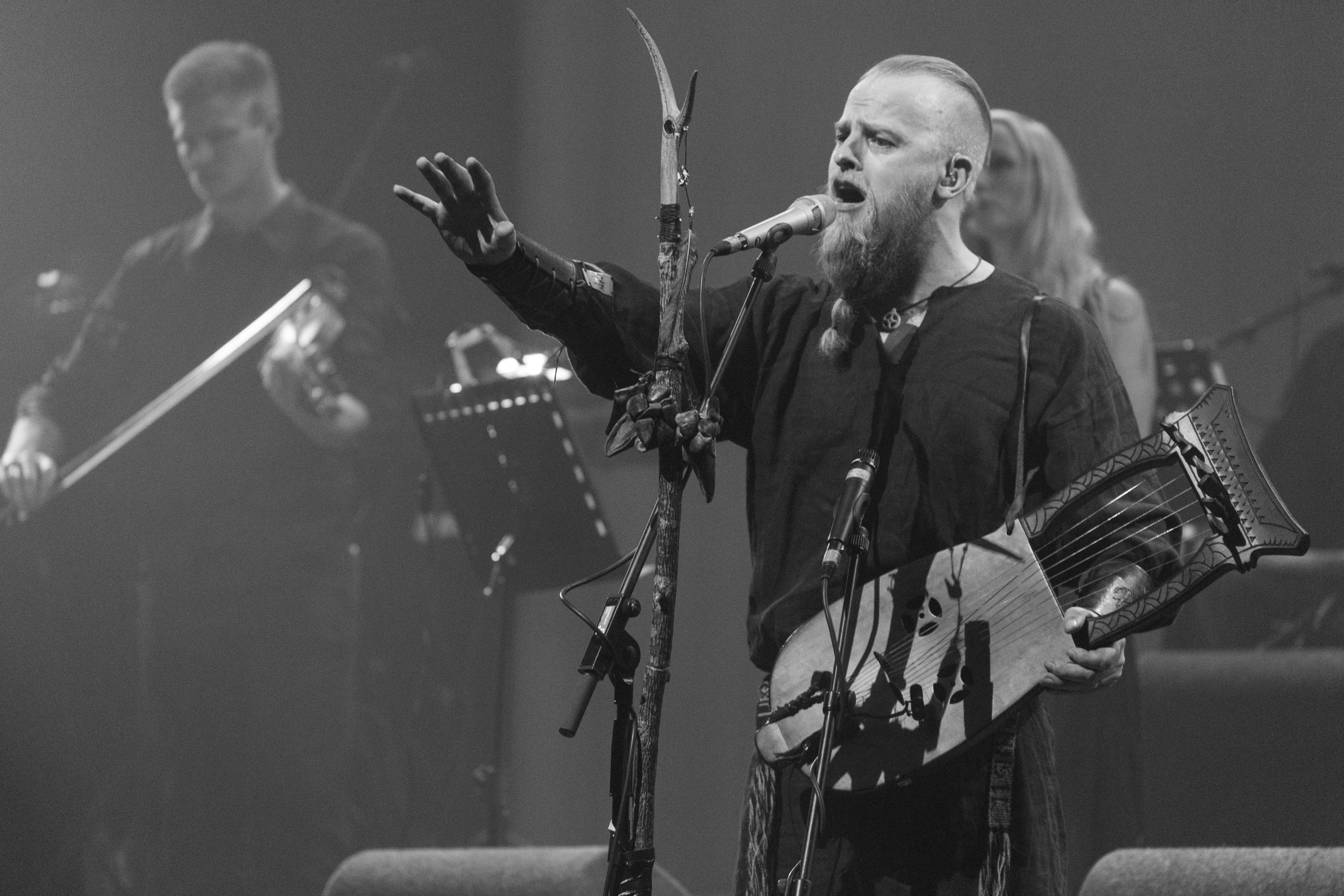 Wardruna performing at Roadburn Festival, april 2015